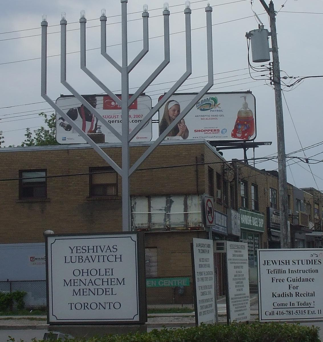 Origianl desc: "It explains why the lubavich always bug me outside the dominons, in lawerence sqaure, this was across the street (the lubavitch keep tyhinking im a jew, and want me to pray and wear the tefflin, the thing is even if i looked like my jews, i dont really dress like the ones in LS)" Toronto, 2007.